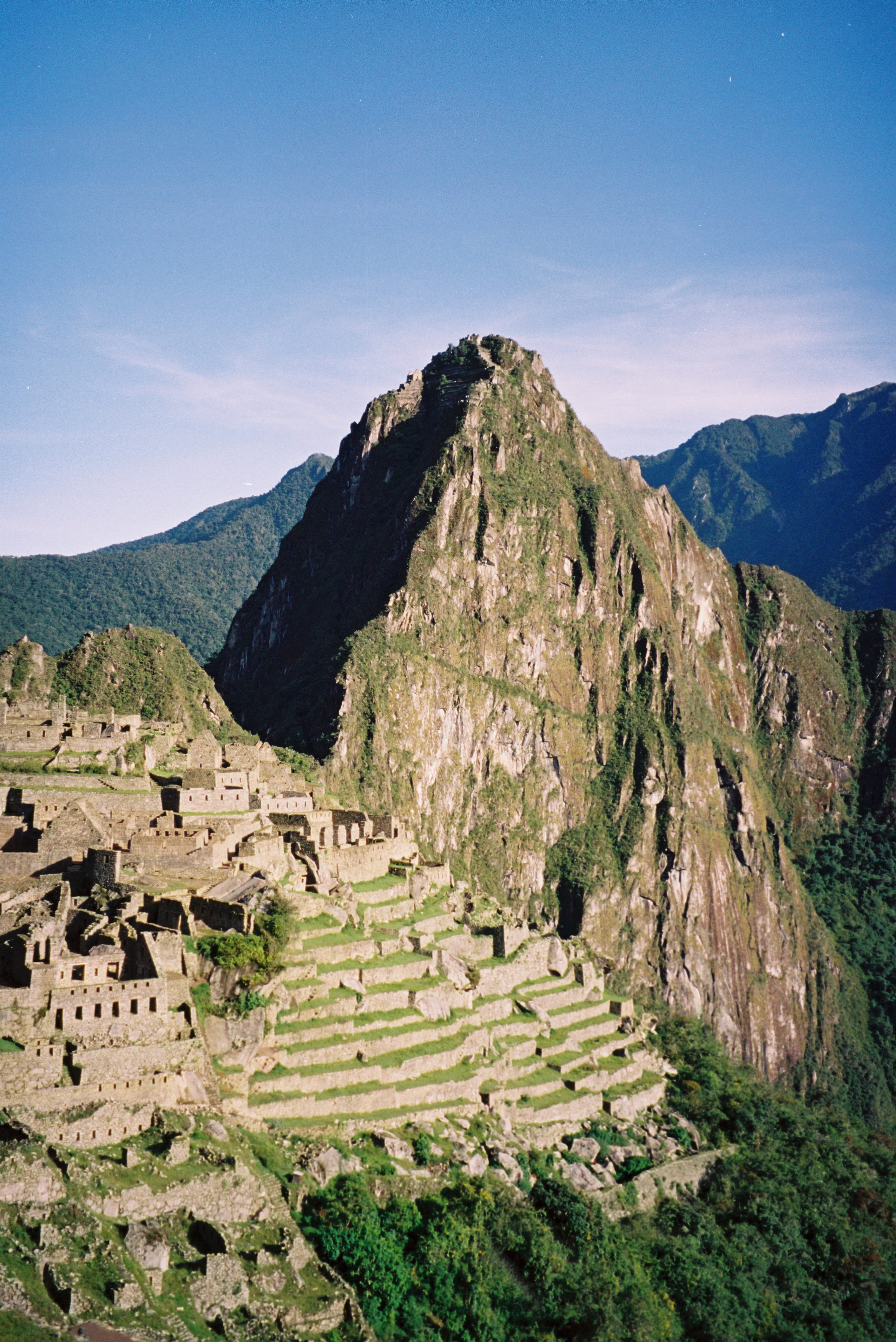 Machu Picchu.